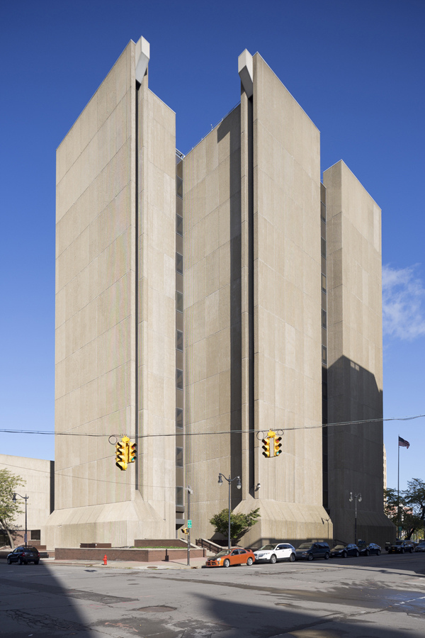 Buffalo City Court Building, 1971-74, Pfohl, Roberts and Biggie